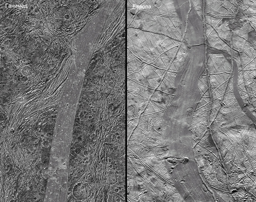 This image, taken by NASA's Galileo spacecraft, shows a same-scale comparison between Arbela Sulcus on Jupiter's moon Ganymede (left) and an unnamed band on another Jovian moon, Europa (right). Arbela Sulcus is one of the smoothest lanes of bright terrain identified on Ganymede, and shows very subtle striations along its length. Arbela contrasts markedly from the surrounding heavily cratered dark terrain.